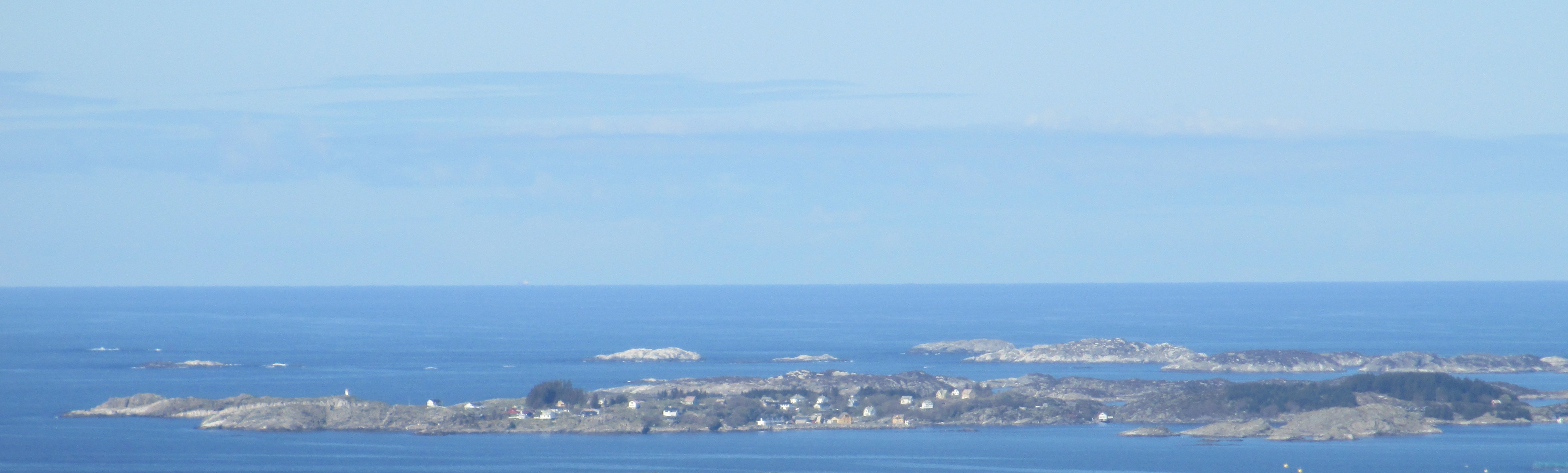 Litlekalsøy, Austevoll, Norway, photographed from KongsfjelletNorsk nynorsk: Litlekalsøy, Austevoll, fotografert frå Kongsfjellet på Selbjørn, Austevoll